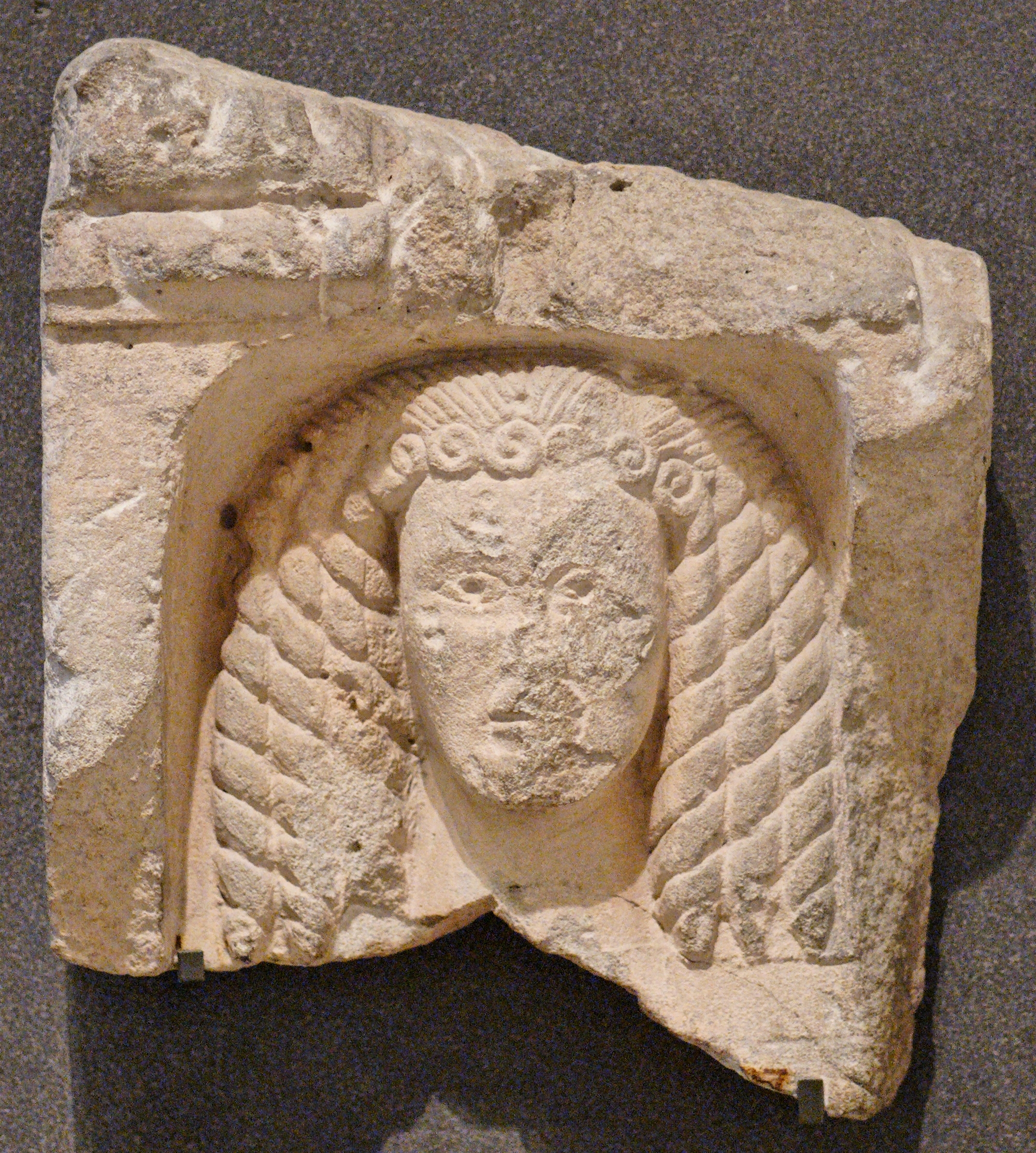 Fragment of a stele with a female head, Greek archaic artwork. From Malessina, Locris.